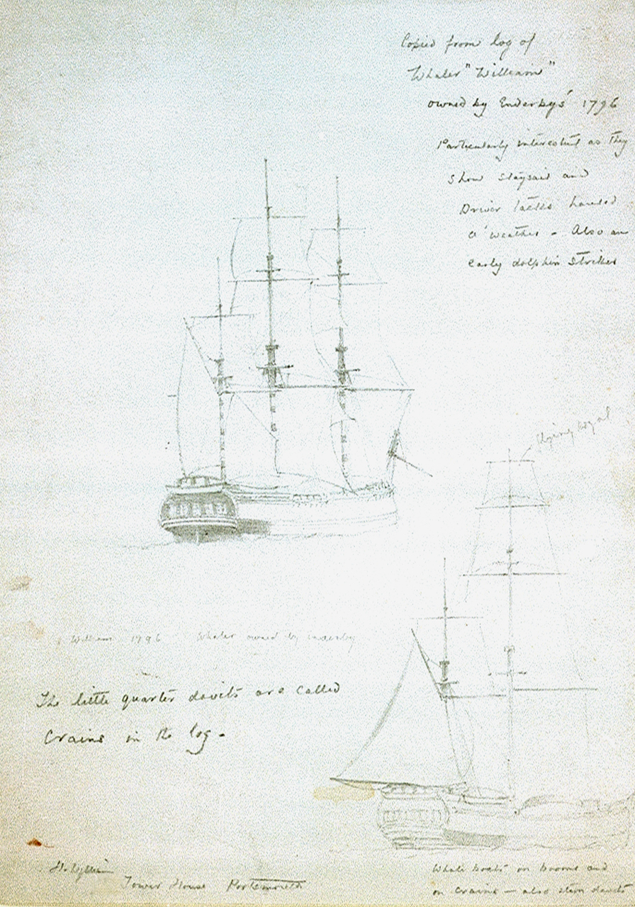 Sketches 'Copied from log of whaler William 1796 owned by Enderby's', with notes on rigging etc Signed by artist. The full inscription to the upper sketch reads: 'Copied from log of Whaler "William" 1796 owned by Enderby's[.] Particuarly interesting as they show staysail and Dver tacks hauled a' weather - also an early dolphin striker'. This drawing shows the ship from off the starboard quarter, possibly with sails generally a back and the driver (on mizzen) and mizzen staysail hauled a-weather. Underneath the identity and ownership of the vesel is repeated. The lower sketch is from the same angle but fainter and with a slightly different sail arrangements, presumably copied from a different scketch in the original log. A 'flying royal' is noted as rigged on the main royal mast and the main caption to the left reads: 'The little quarter davits are called crains [ie cranes] in the log'. Below the drawing is a note 'Whale boats on booms and on crains- also stern davits', and bottom left the artist's signature: ' H. Wyllie / Tower House Portsmouth'. Harold Wyllie was the son of W.L. Wyllie (who lived at Tower House from 1906/7 to his death in 1931 and his widow until a little later).